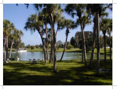 Photograph of Warm Mineral Springs, North Port, Florida